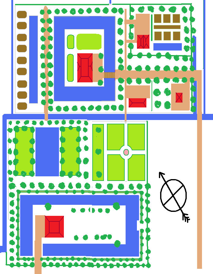 Reconstruction